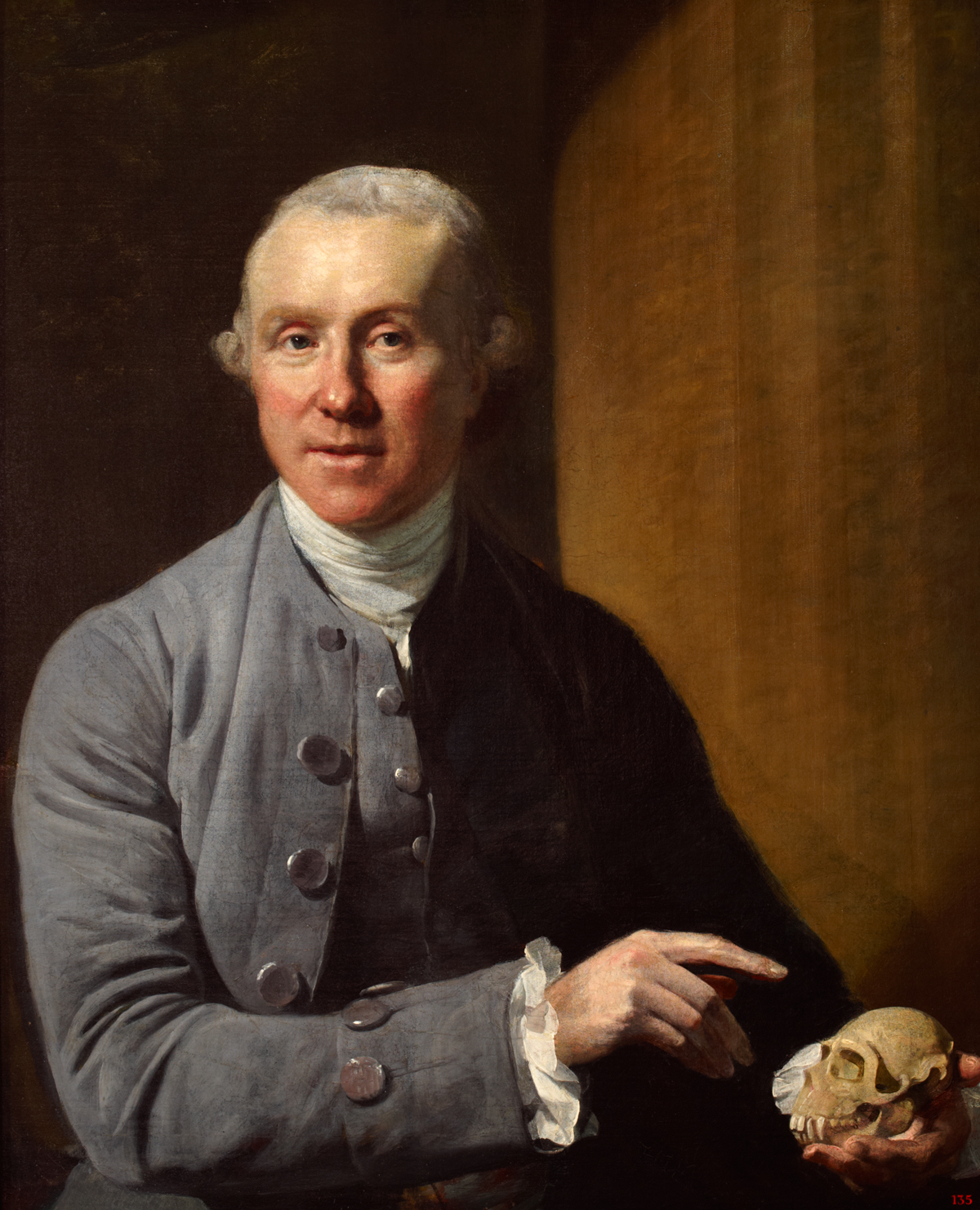 John Hunter (1728–1793), English surgeon